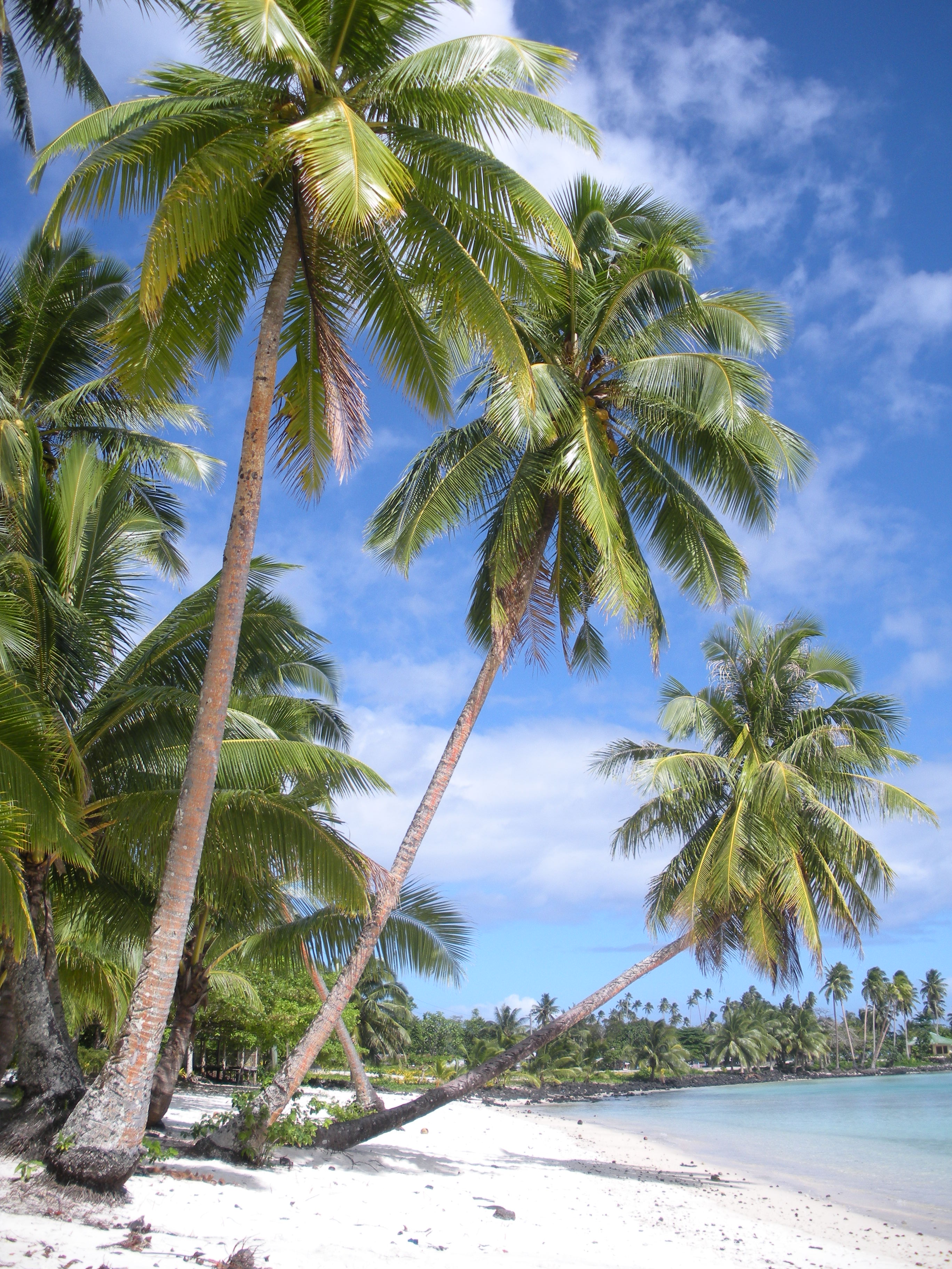 Return to Paradise beach, Lefaga village district, southwest coast of Upolu Island, Samoa, 2009.